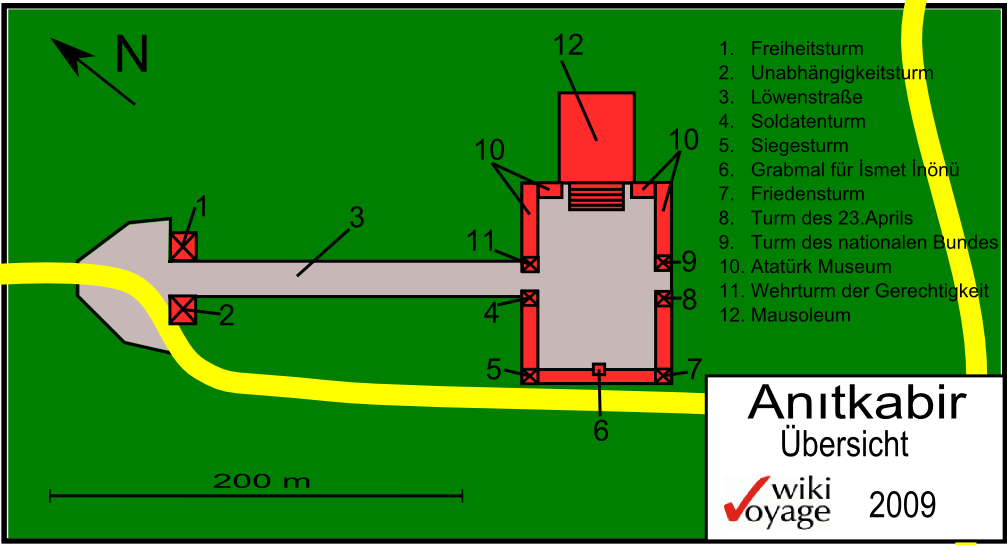 Map of Anıtkabir